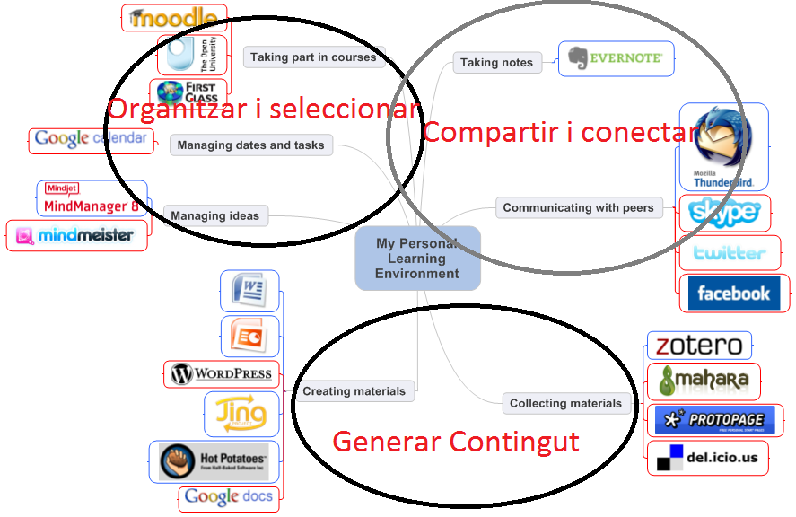 Example PLE